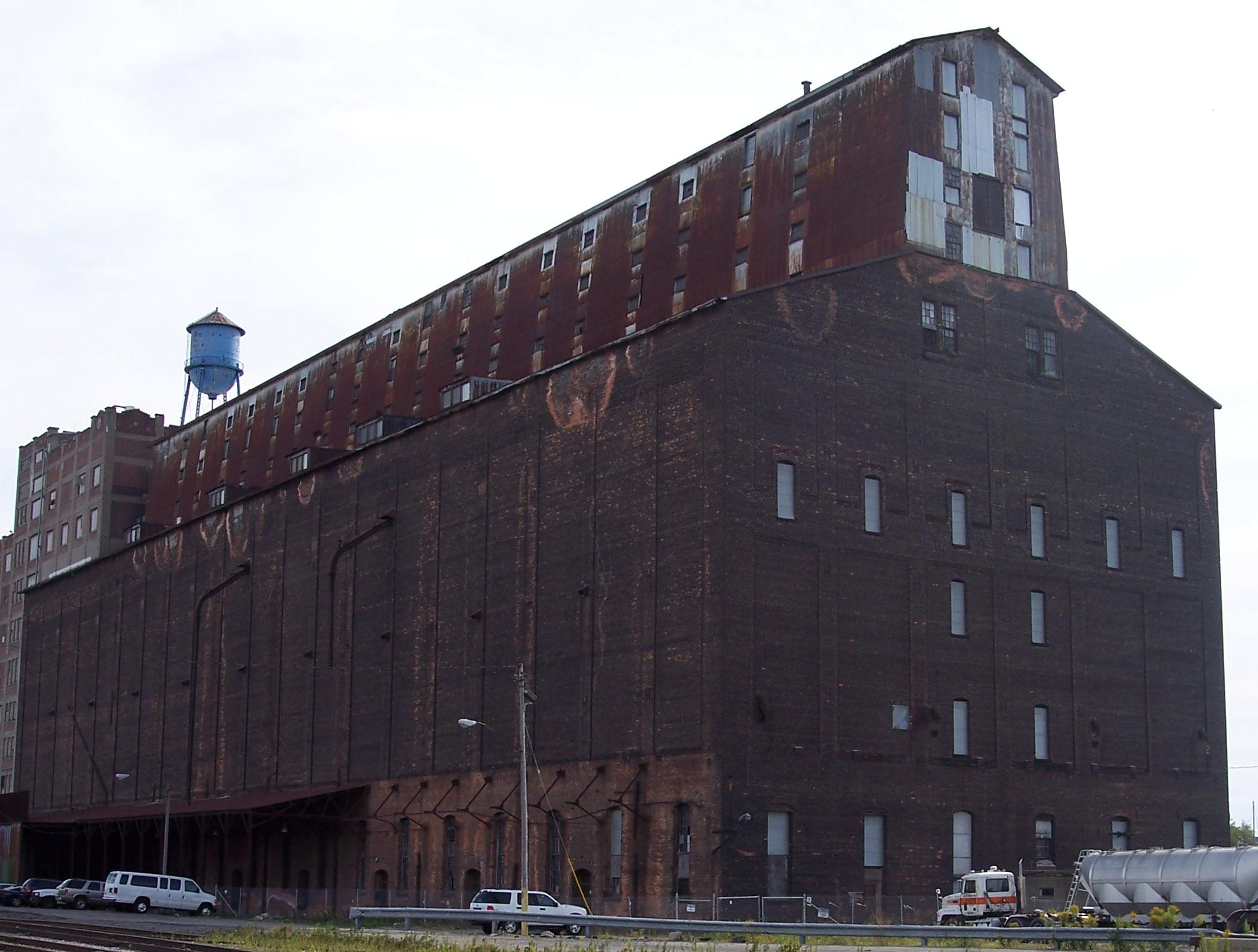 Great Northern Elevator, 250 Ganson Street, Buffalo (Erie County) NY United States